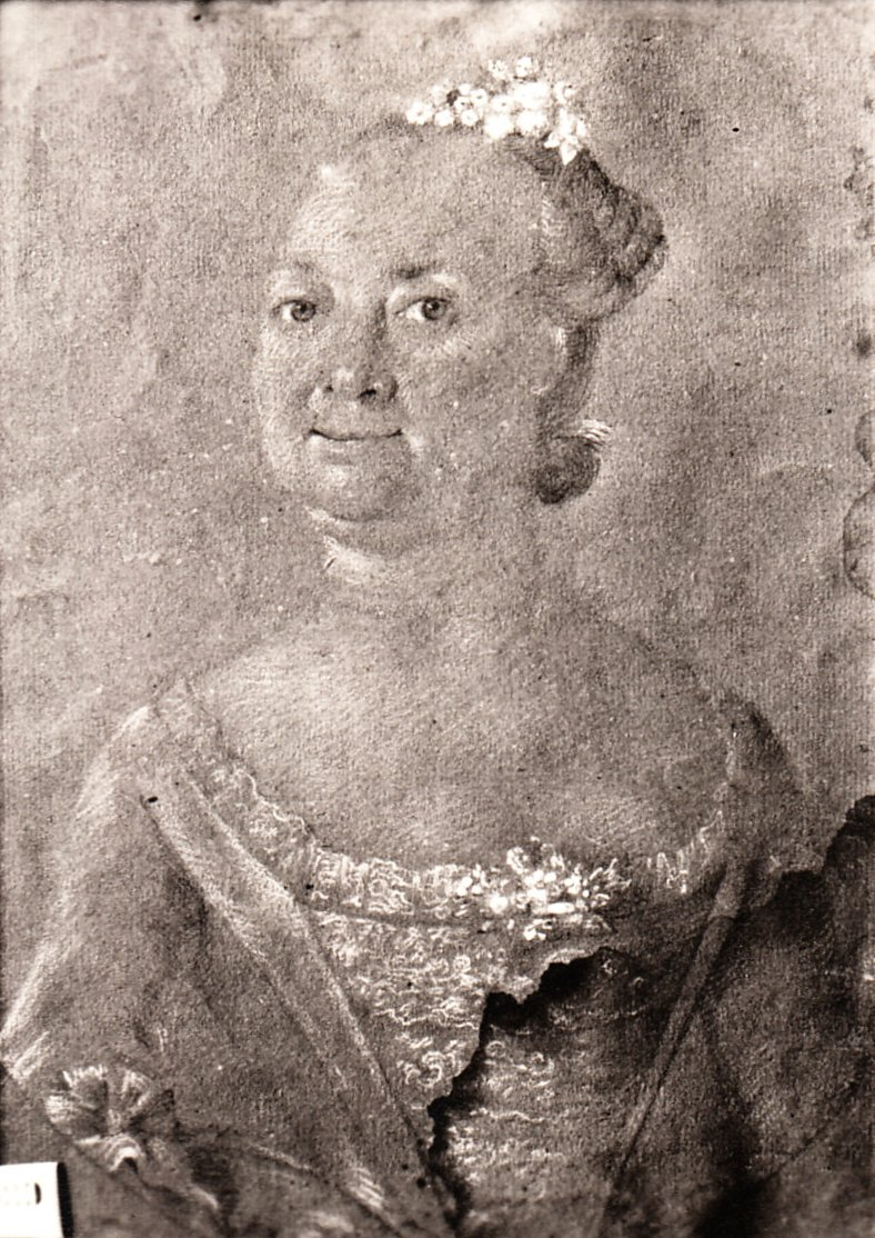 Drawing of Magdalena Wensell, b. Tostrup photographed by Erik Olsen in 1897 in connection with the exhibition Trondhjems 900-årsjubileum (Trondheim`s 900-years anniversary).